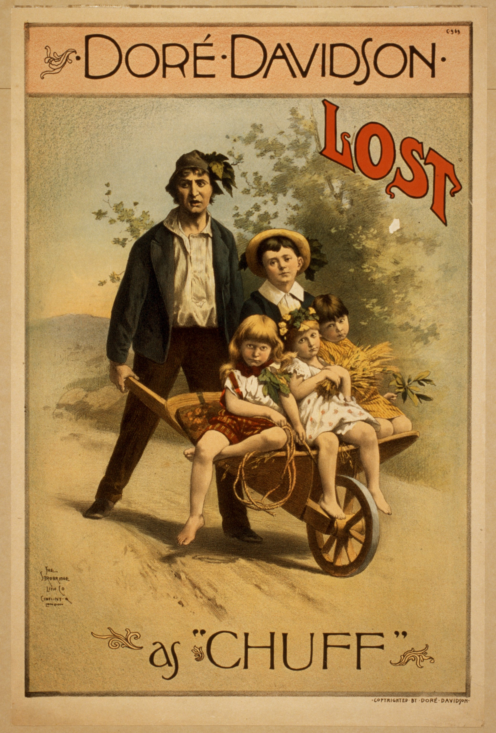 Title: Lost Abstract/medium: 1 print : color lithograph ; sheet 72 x 47 cm. (poster format)